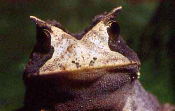 Proceratophrys boiei